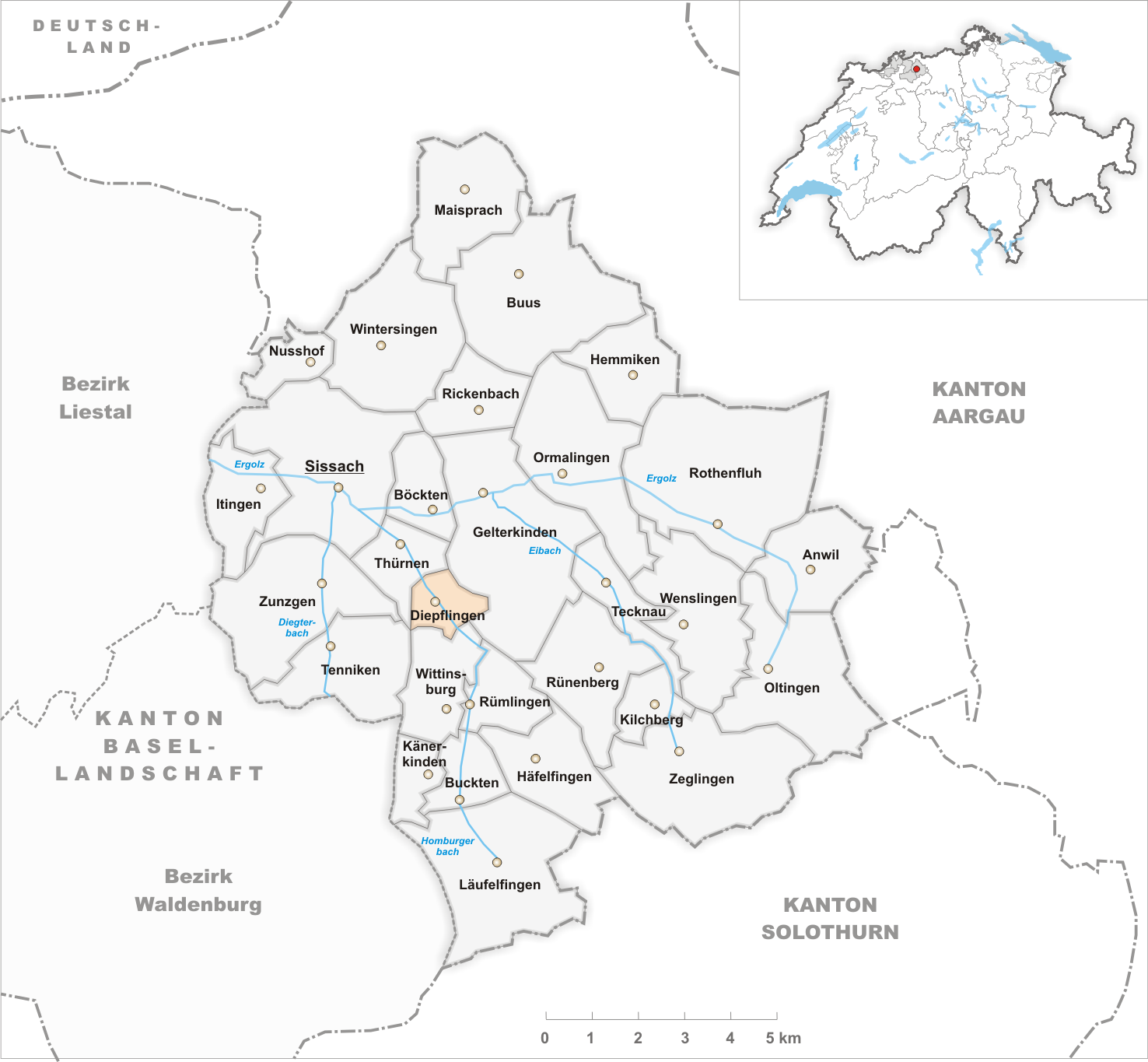 Municipality Diepflingen